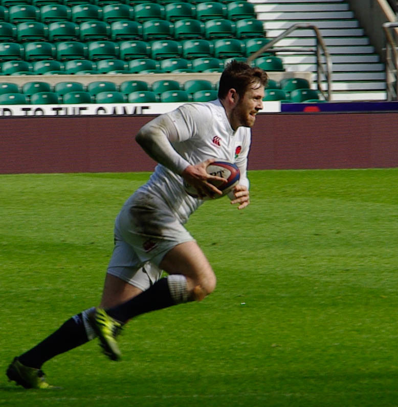 Elliot Daly training for the Six Nations